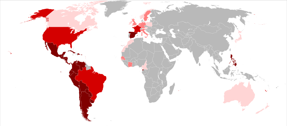 geographical places of the spanish language